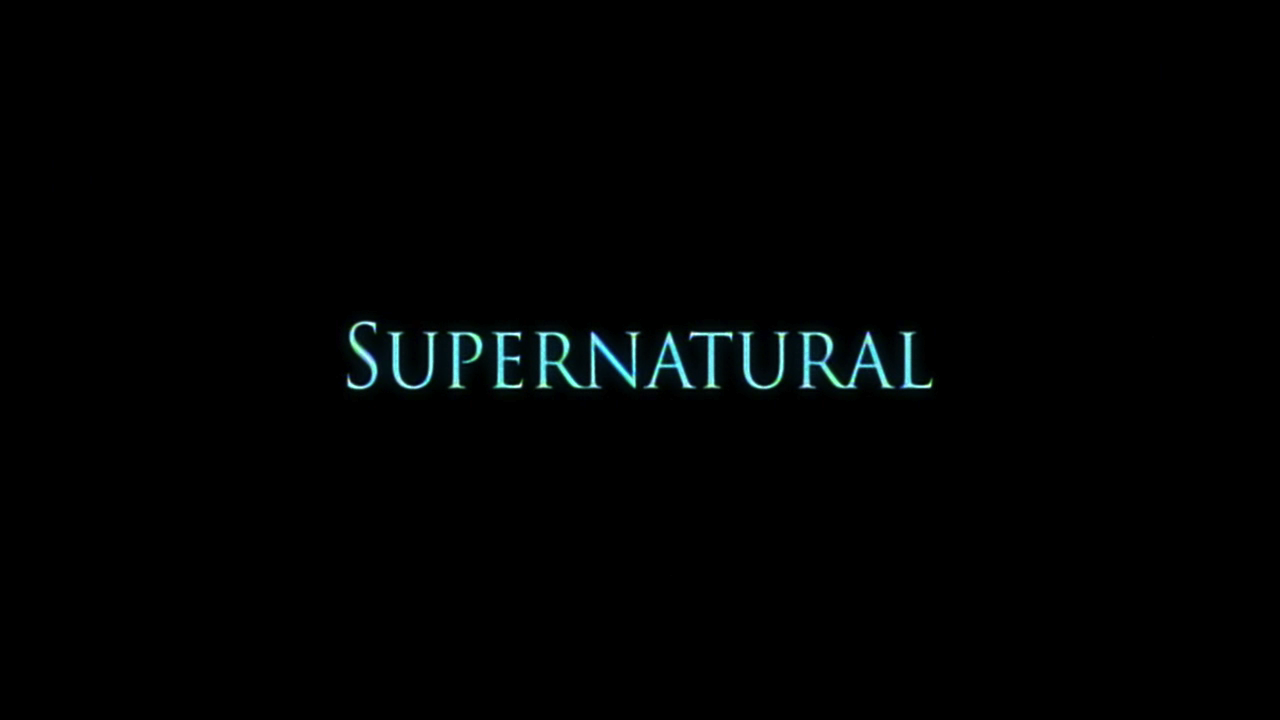 The opening title for the first season of the 2005 TV show Supernatural.